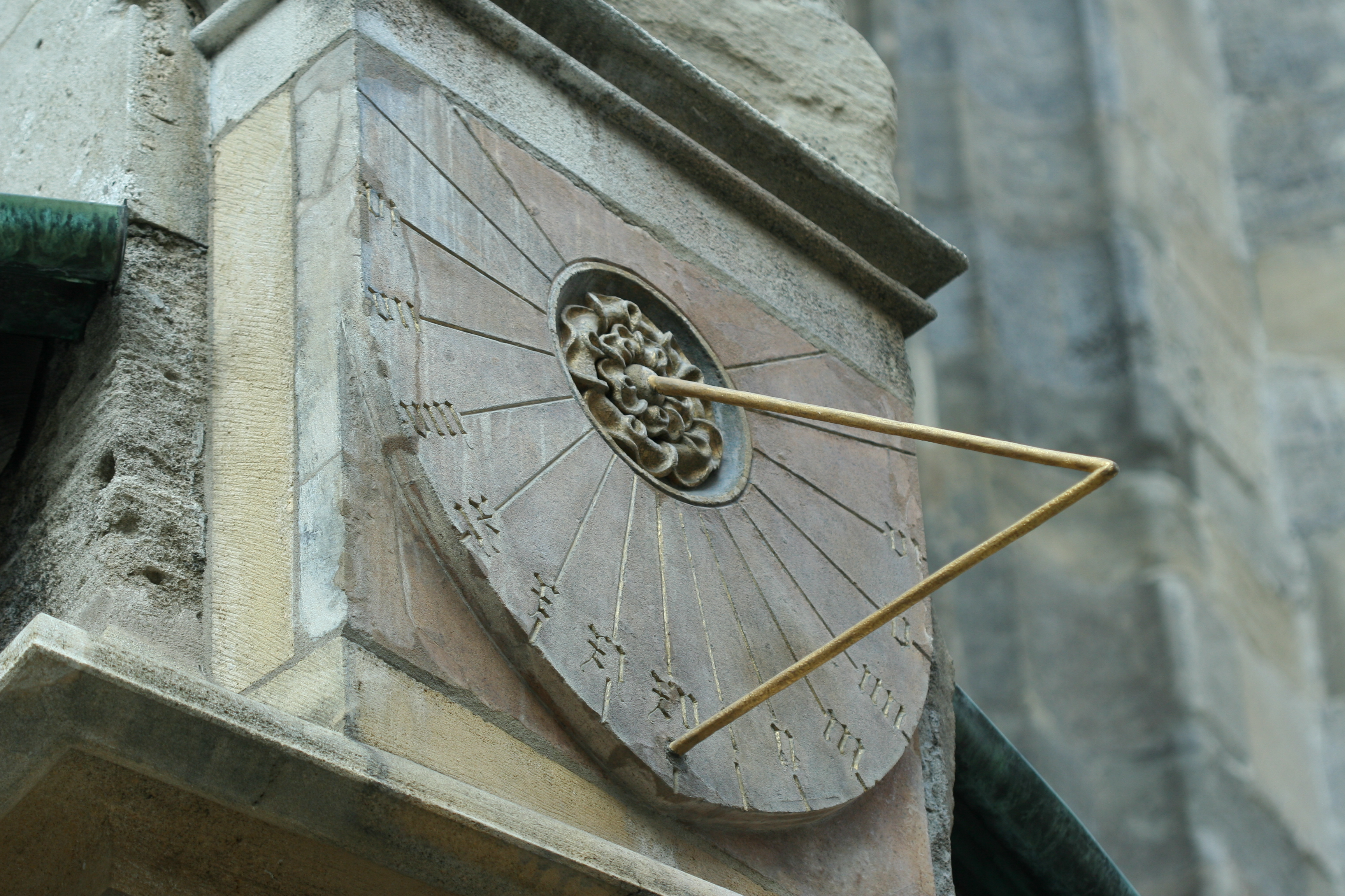 vertical sundial on stephansdom